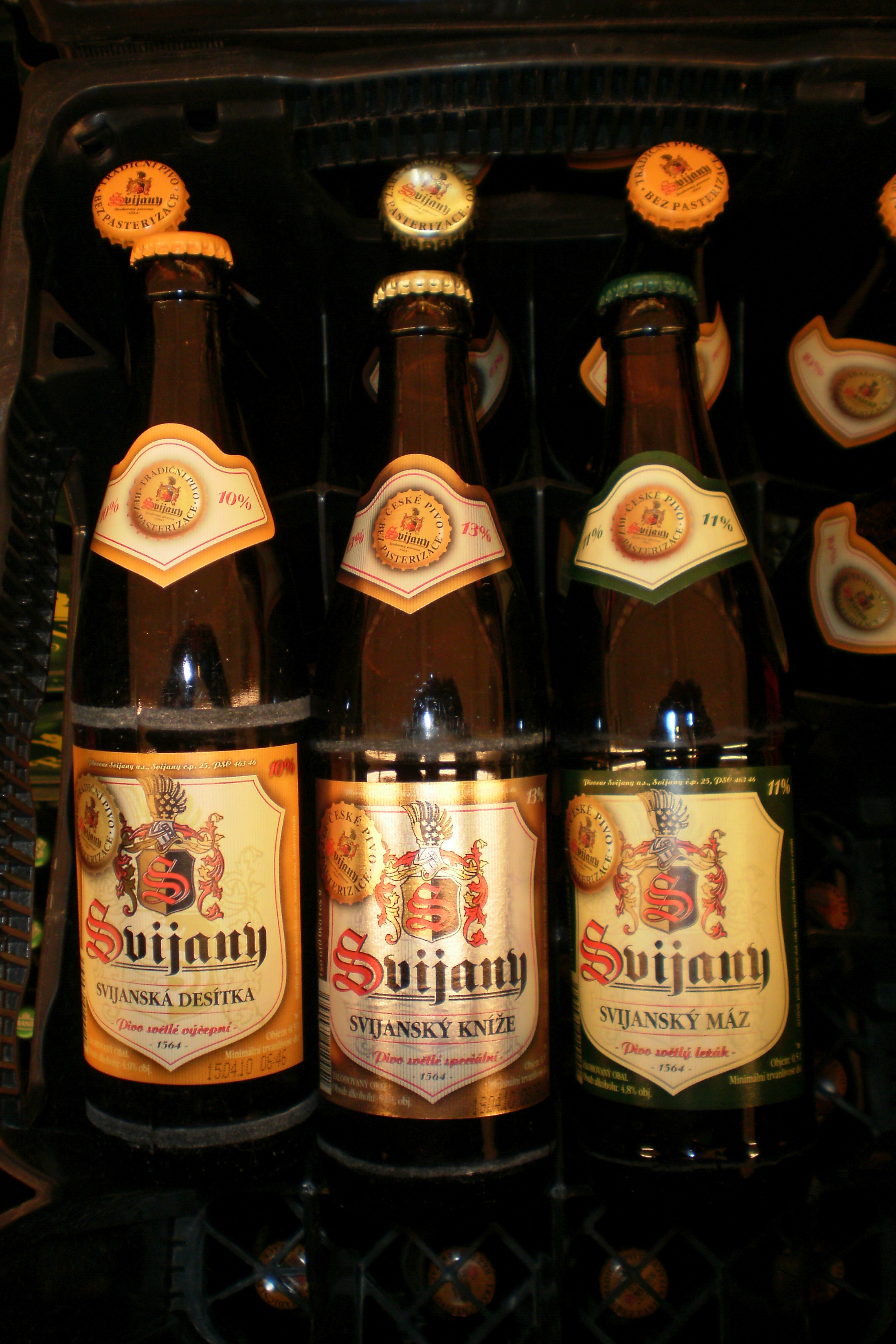 Beer - Czech Republic.